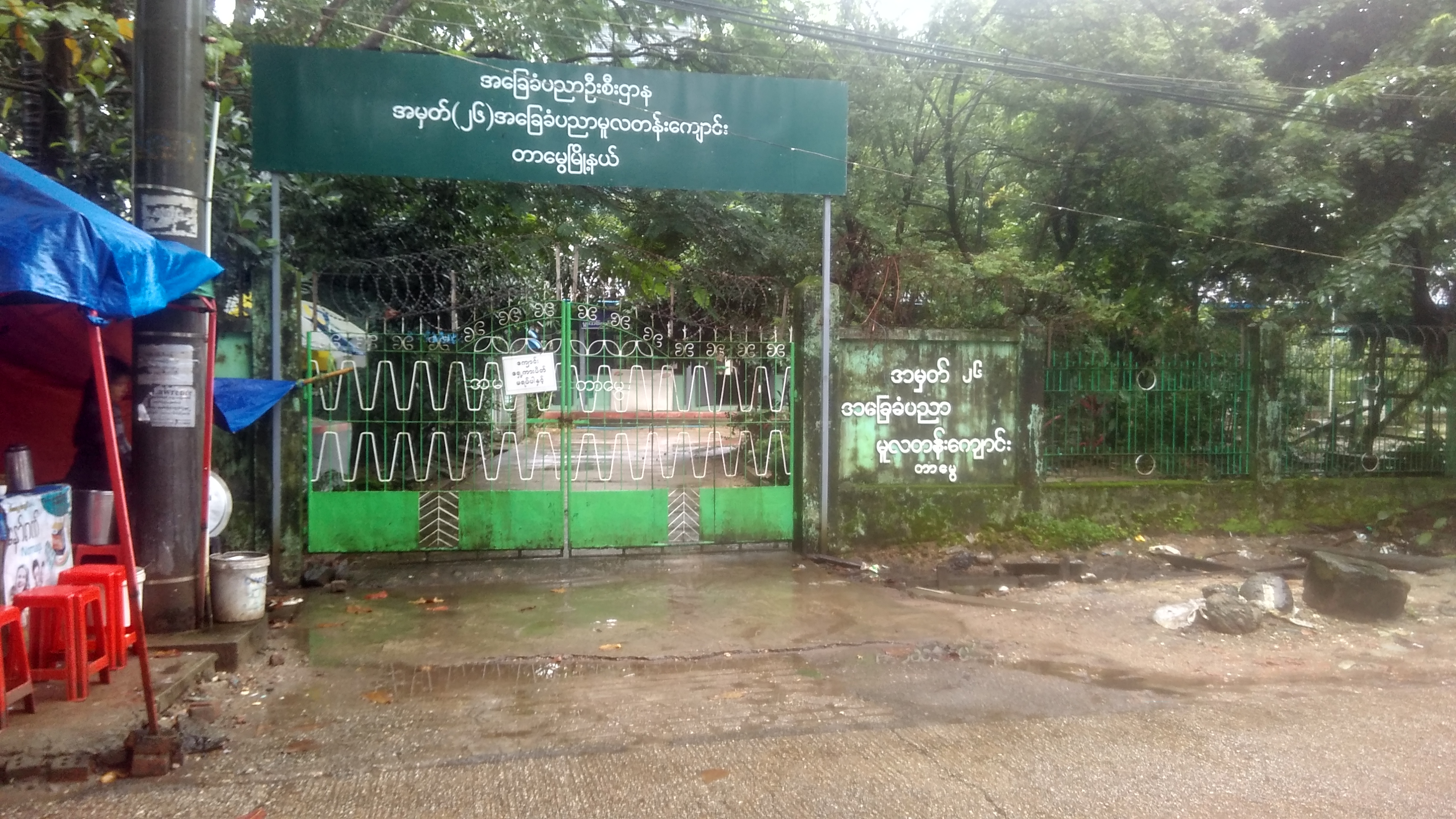 B.E.P.S (26) Tamwe မြန်မာဘာသာ: အမှတ် (၂၆)၊ အခြေခံပညာမူလတန်းကျောင်း (တာမွေ)